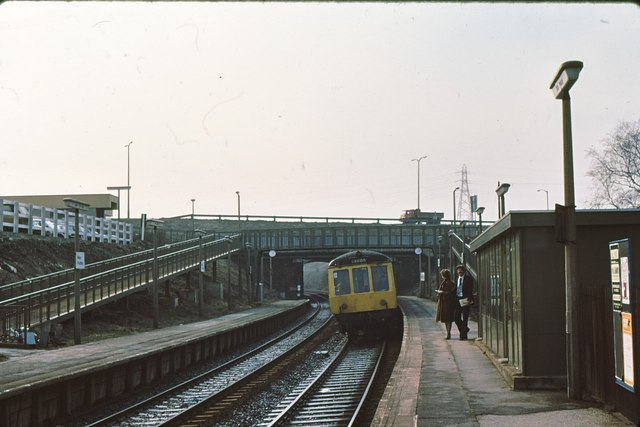 New Pudsey station 1979 Bradford to Leeds train arriving in April 1979.